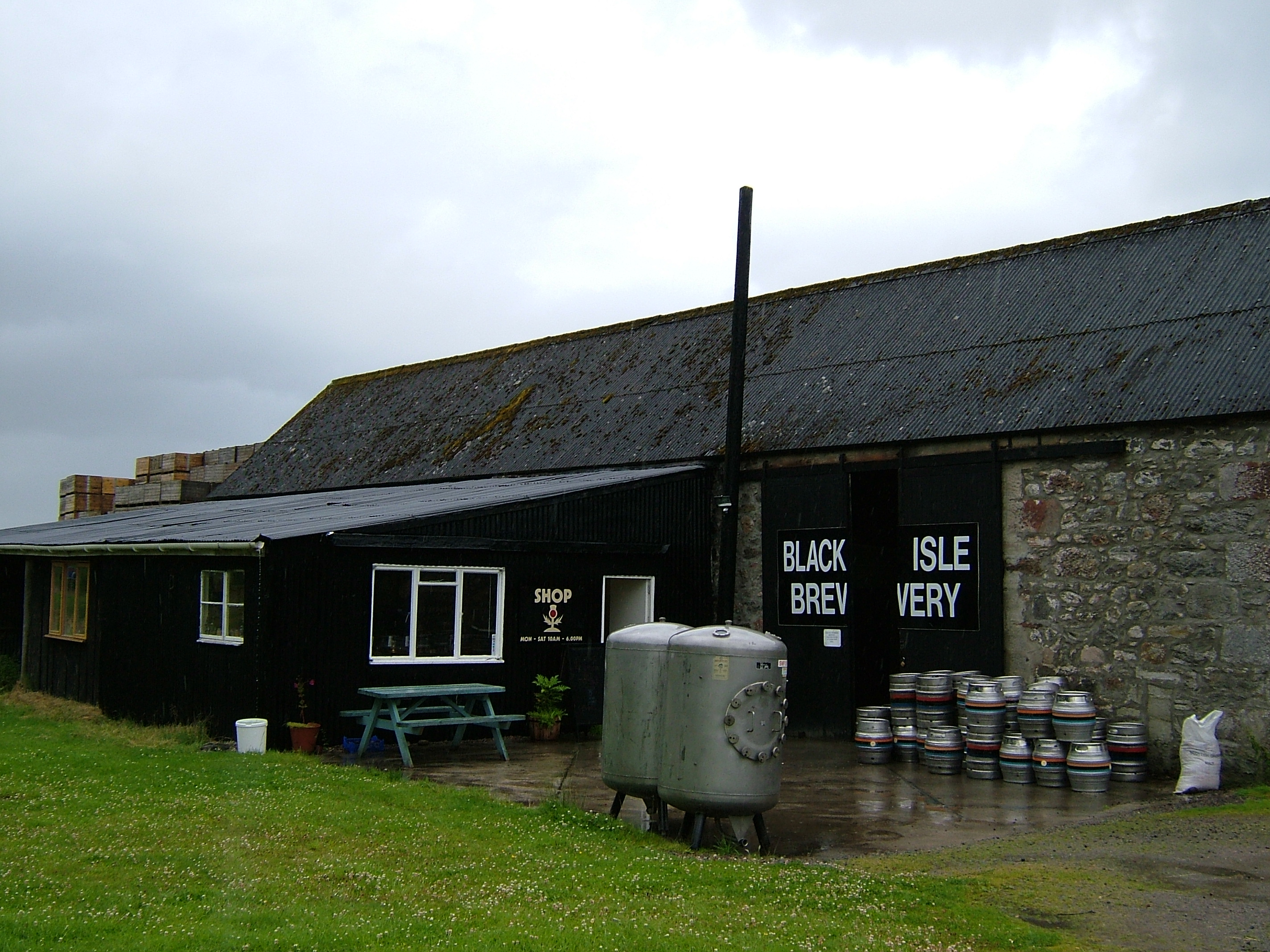 Black Isle Brewery building in the Scottish Highlands just north of Inverness. This picture shows the main entrance to the brewery on the right, as well as the brewery shop on the left. Taken by myself (Craig Hennessey) on 19th July 2005.